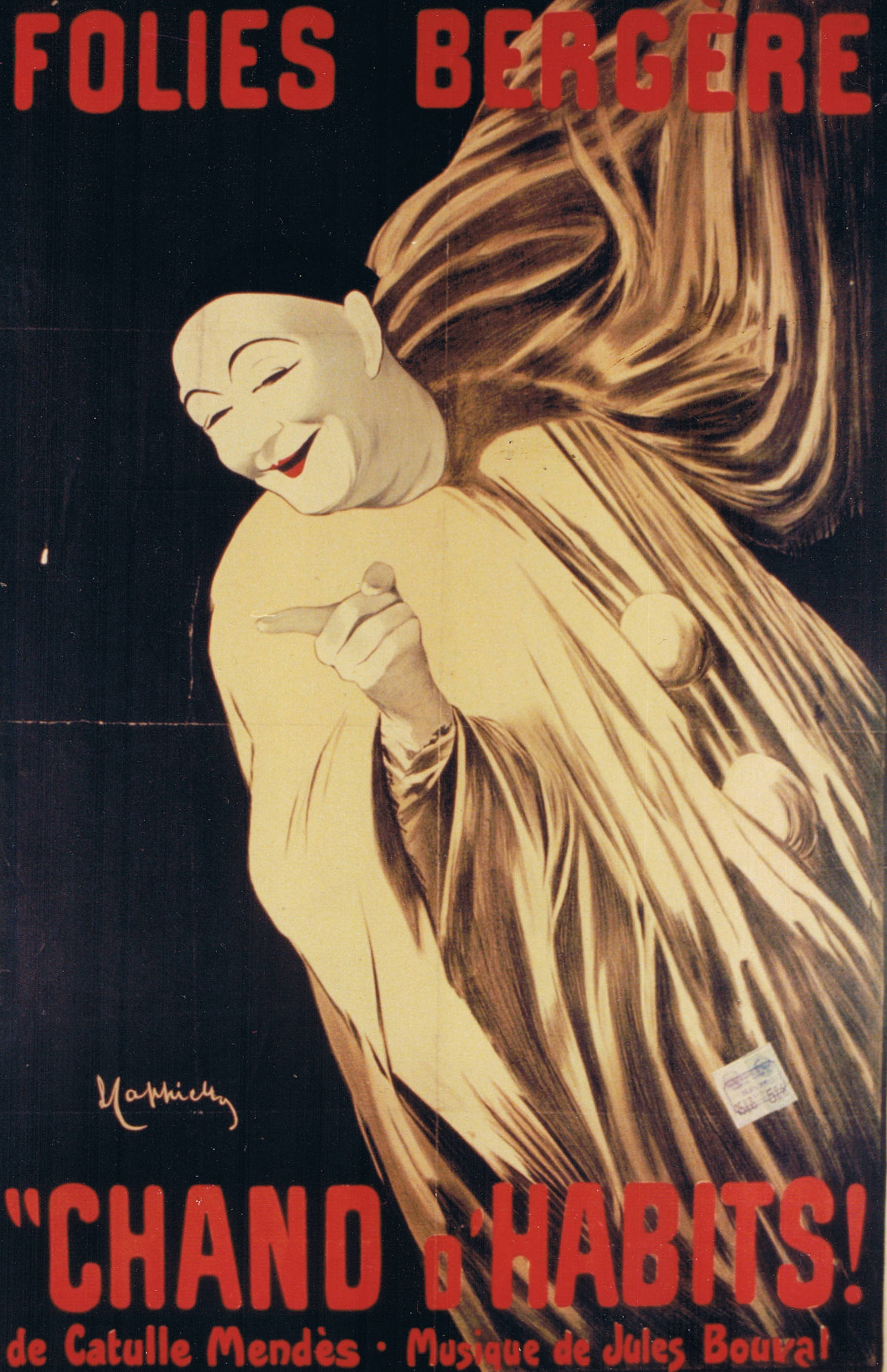 Poster by Happichy of Severin in Chand d'habits!, 1896